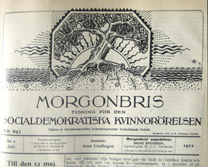 Morgonbris. Reproduction of magazine cover